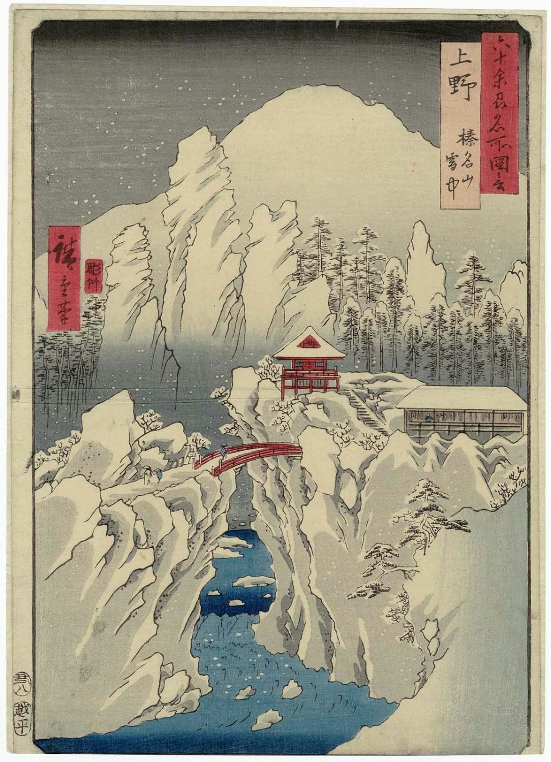 Part of the series Famous Places in the Sixty-odd Provinces, No. 26 (Tōsandō group)